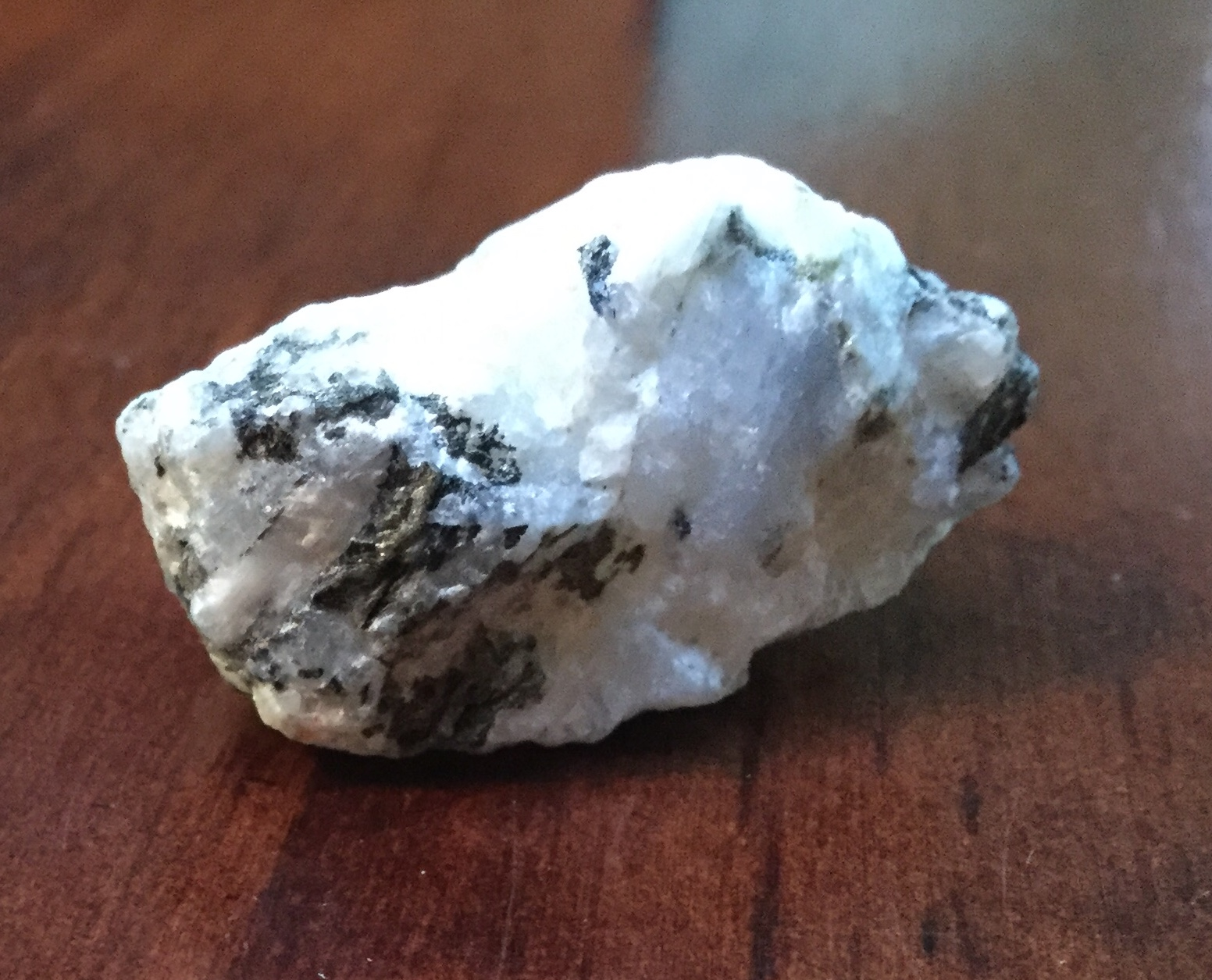 it moon